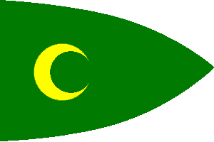 Fictitious Flag of the Ottoman Navy.